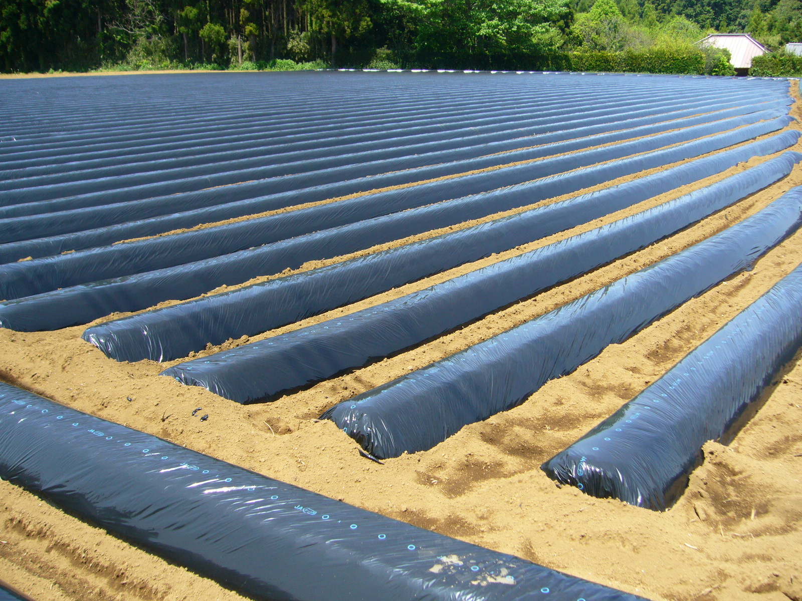 Plastic mulch, sweet potato field, katori-city, Japan